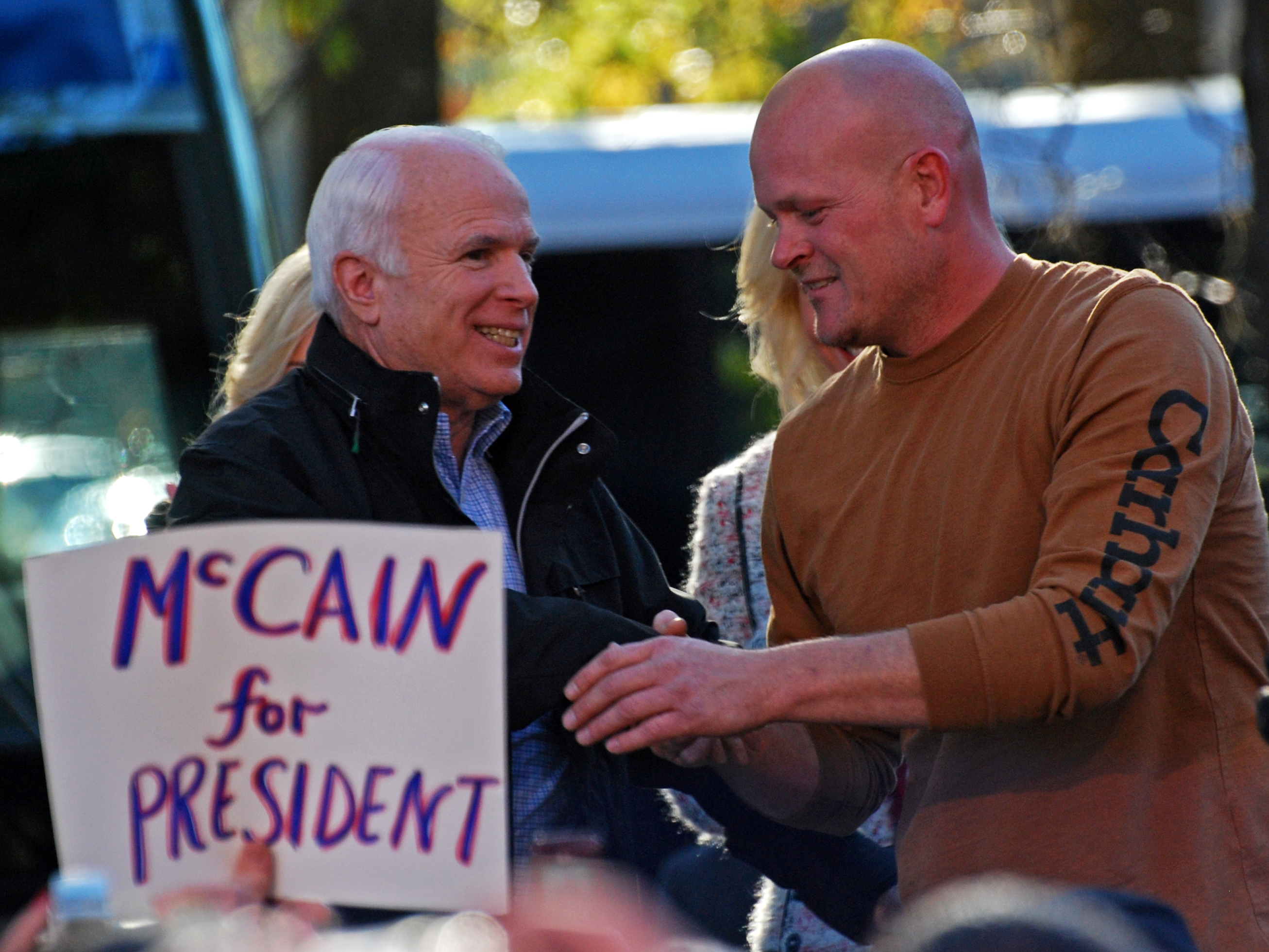 Samuel Joseph Wurzelbacher (Joe the Plumber) and 2008 United States presidential candidate John McCain in a joint campaign appearance in Elyria, Ohio, U.S. Wurzelbacher is shaking hands with McCain and both are smiling as a supporter in front of McCain holds up a homemade "McCain for President" sign.